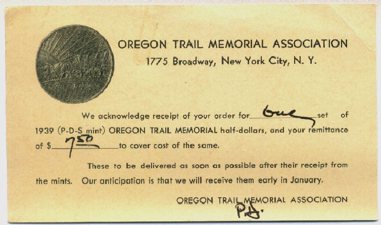 Message side of printed postal card acknowledging order for a 1939 Oregon Trail Memorial half dollar set. Neither side bears a copyright, and this would have been sent to anyone who successfully reserved a set.